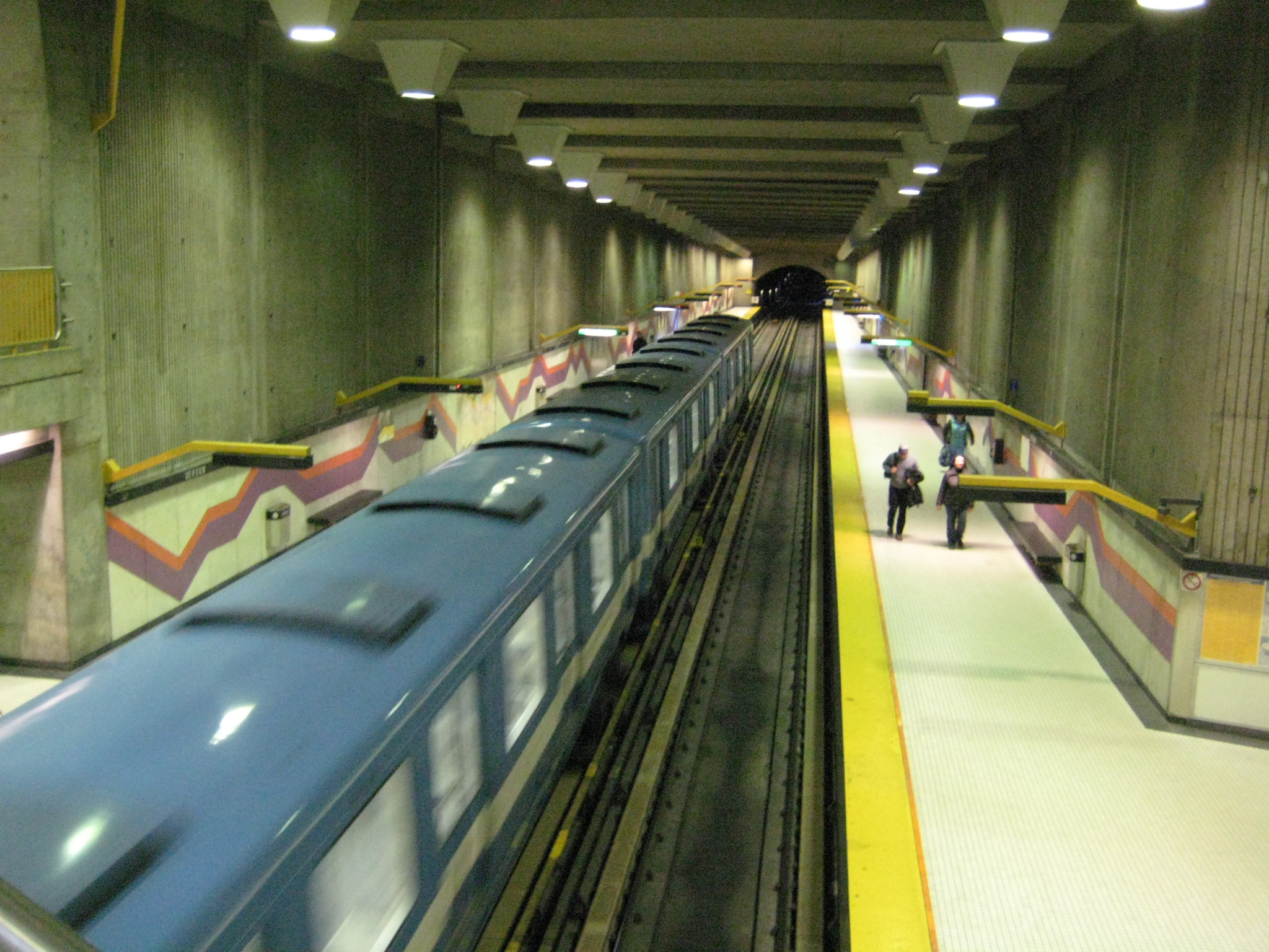 Verdun station, Montreal Metro